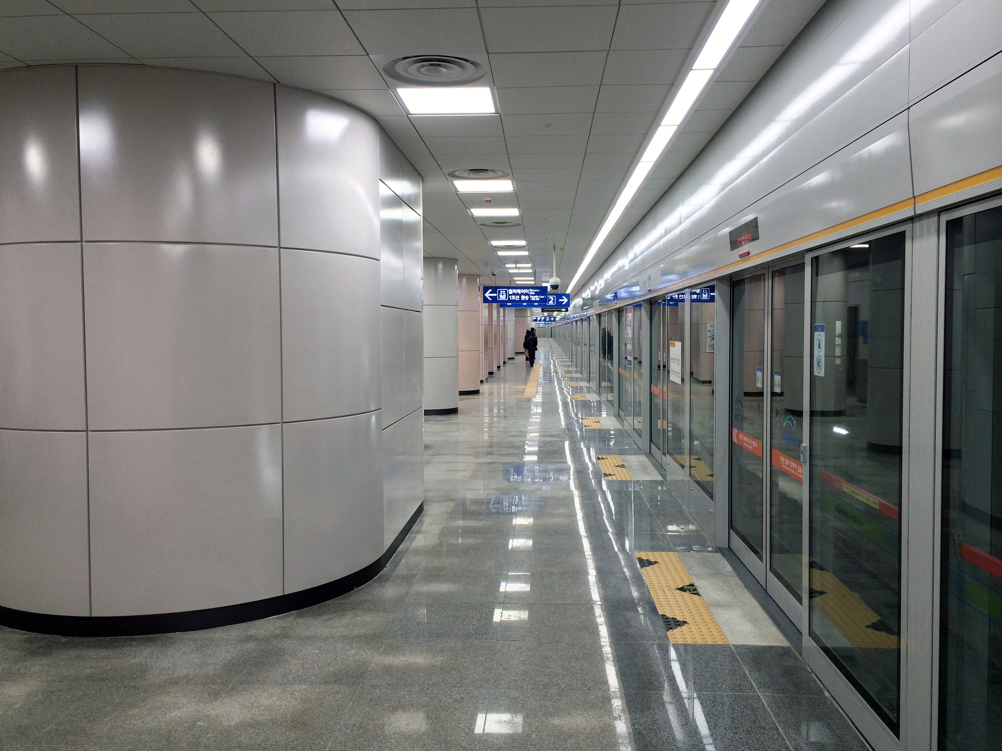 Platform of Suwon Station (Bundang Line)